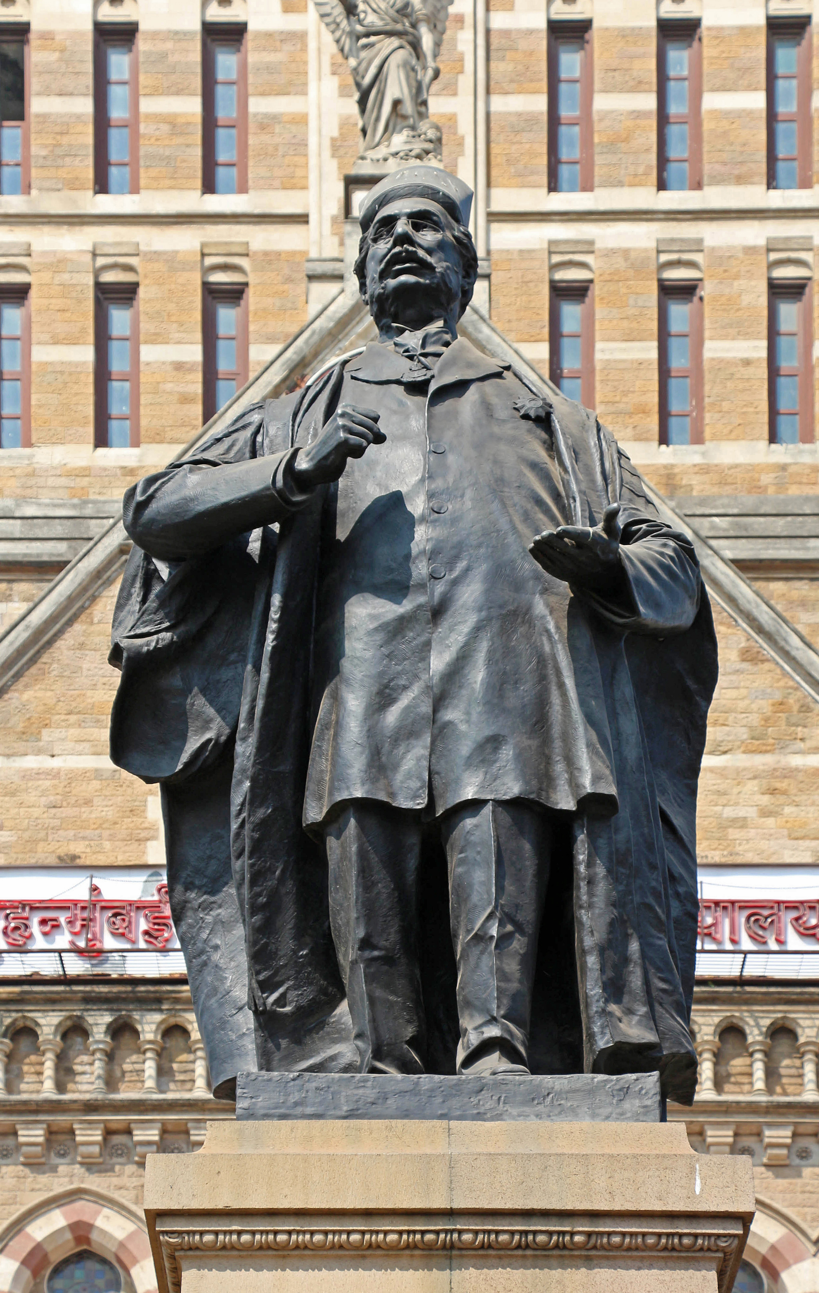 Statue of Sir Pherozeshah Mehta in front of BMC building, Mumbai, India